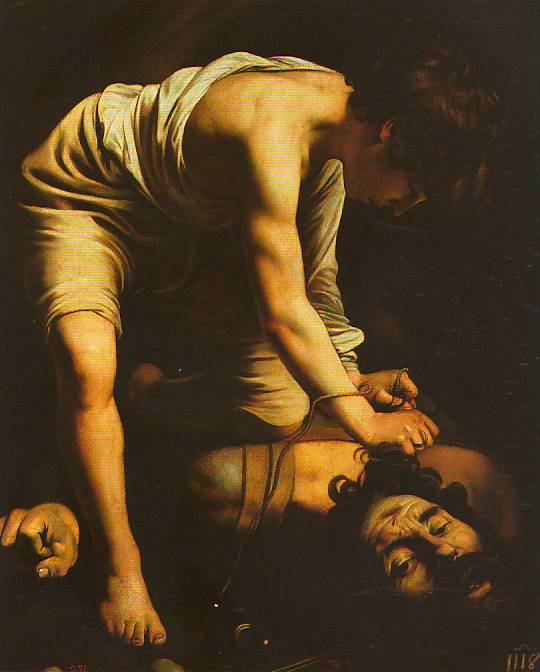 Caravaggio